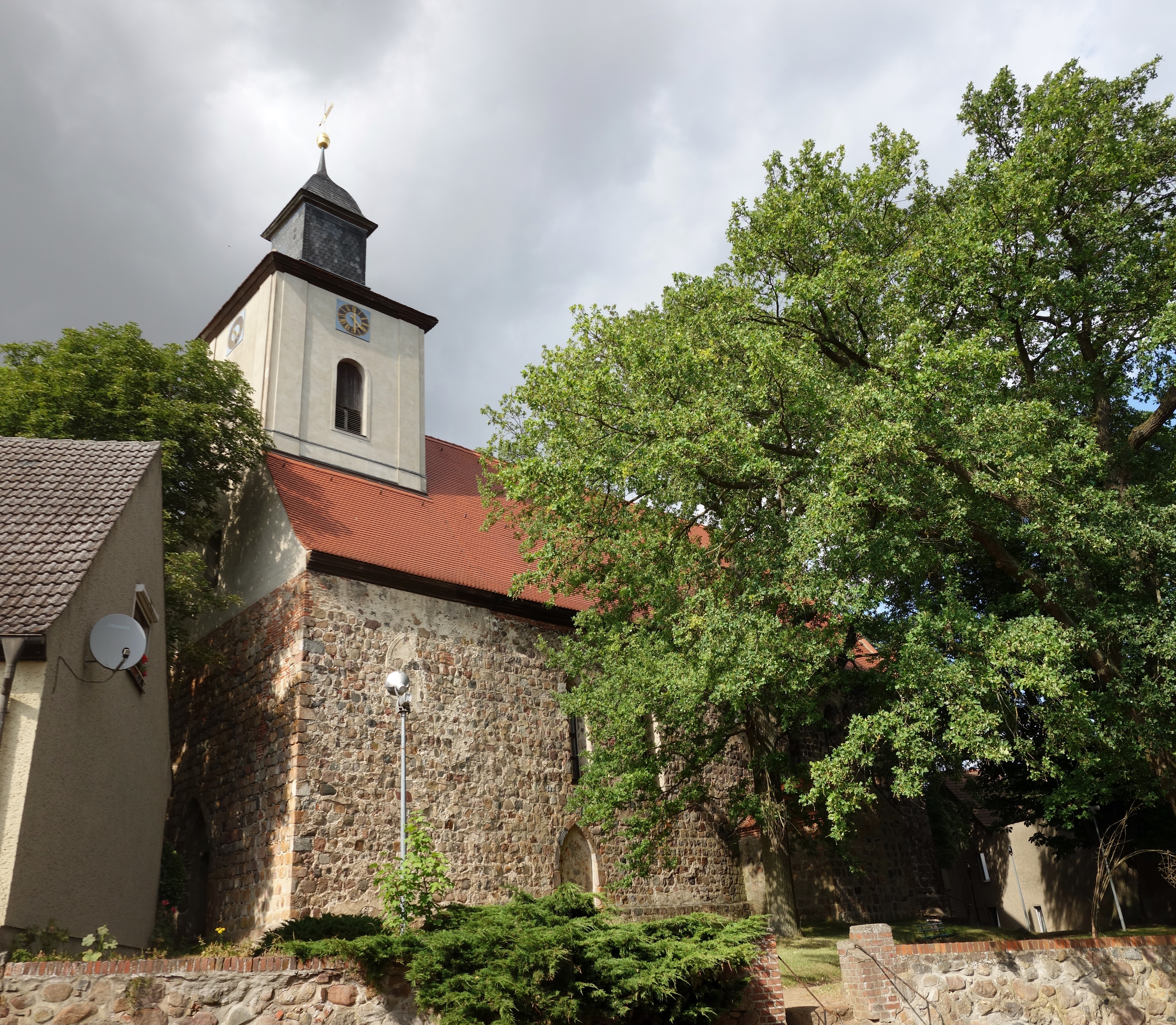 South-western view of the church in Fürstenwerder , Nordwestuckermark municipality , Uckermark district, Brandenburg state, Germany